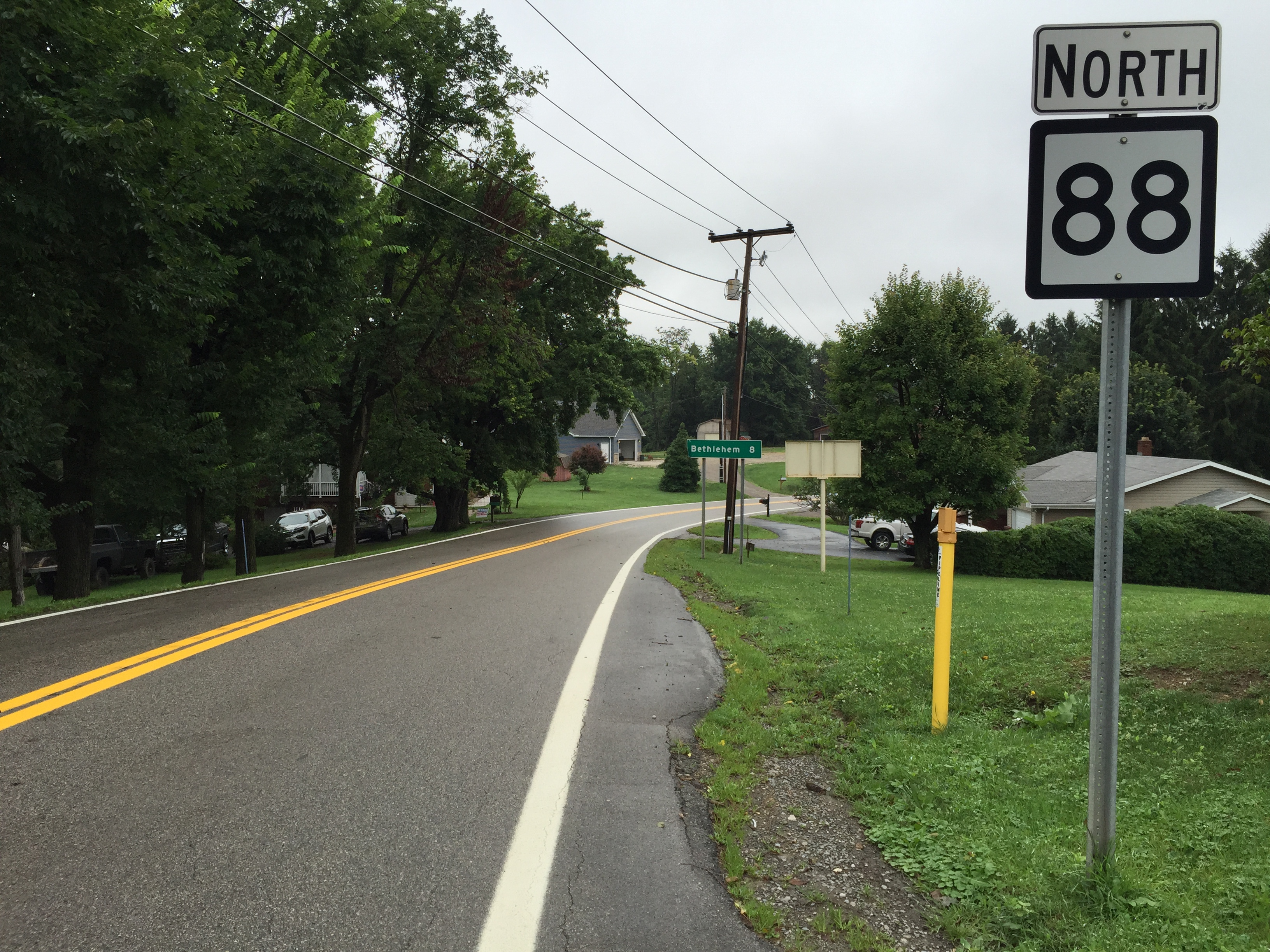 View north along West Virginia State Route 88 (Fairmont Pike) at U.S. Route 250 (Waynesburg Pike) in Limestone, Marshall County, West Virginia